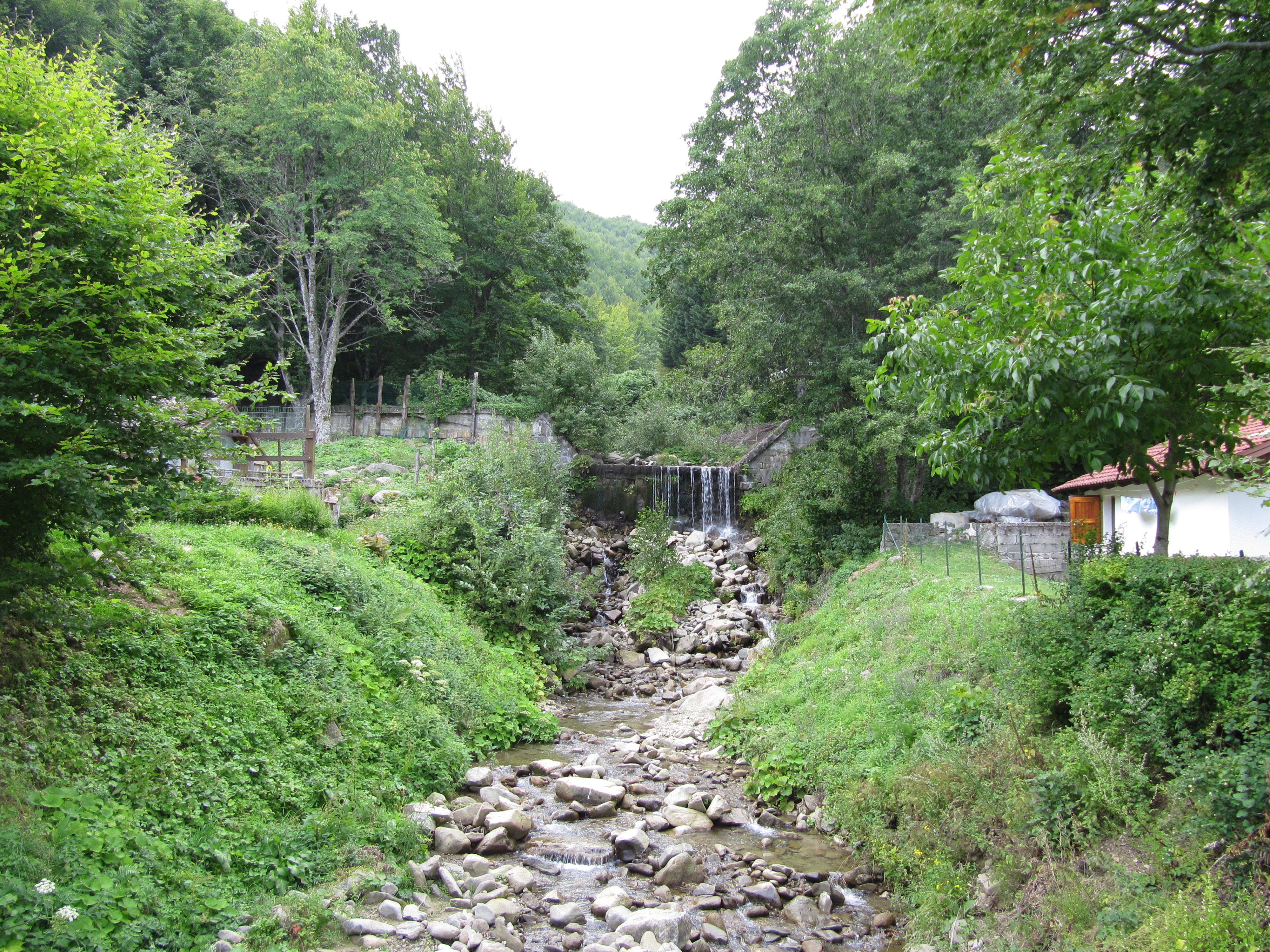 Il torrente Rossenedola a Ligonchio.